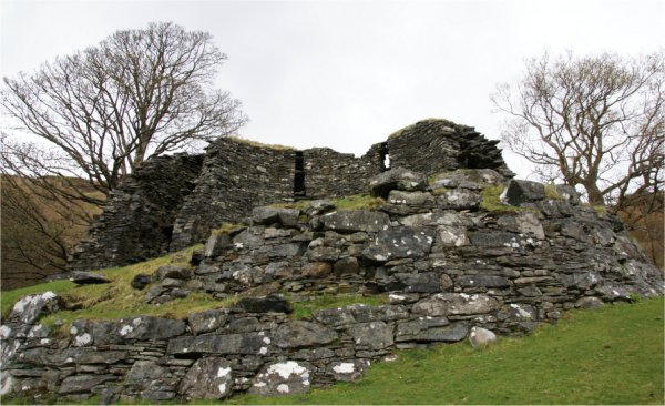 Dun Troddan, one of the Glenelg Brochs in Scotland